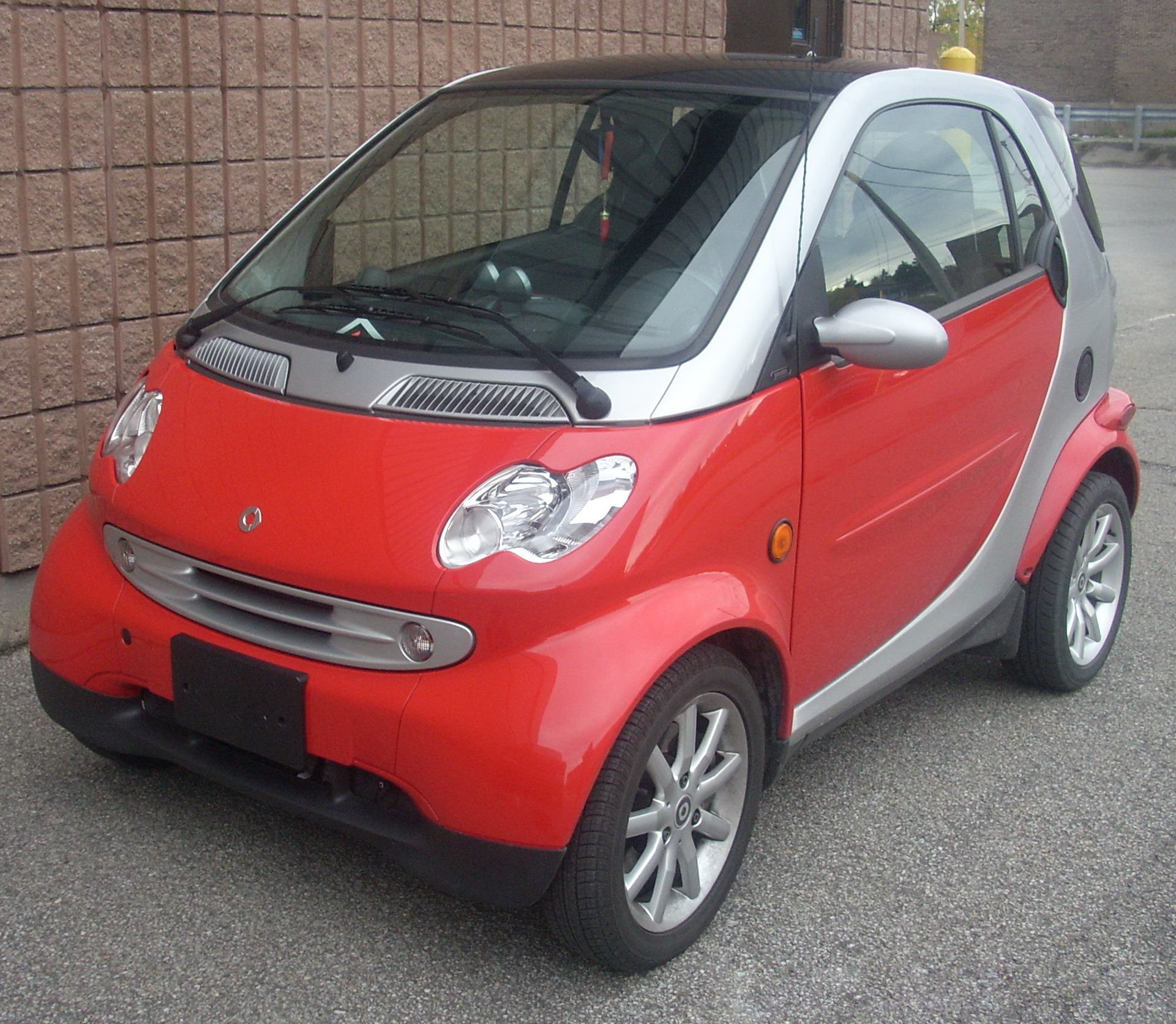 2005-2007 Smart Fortwo photgoraphed in Montreal, Quebec, Canada.